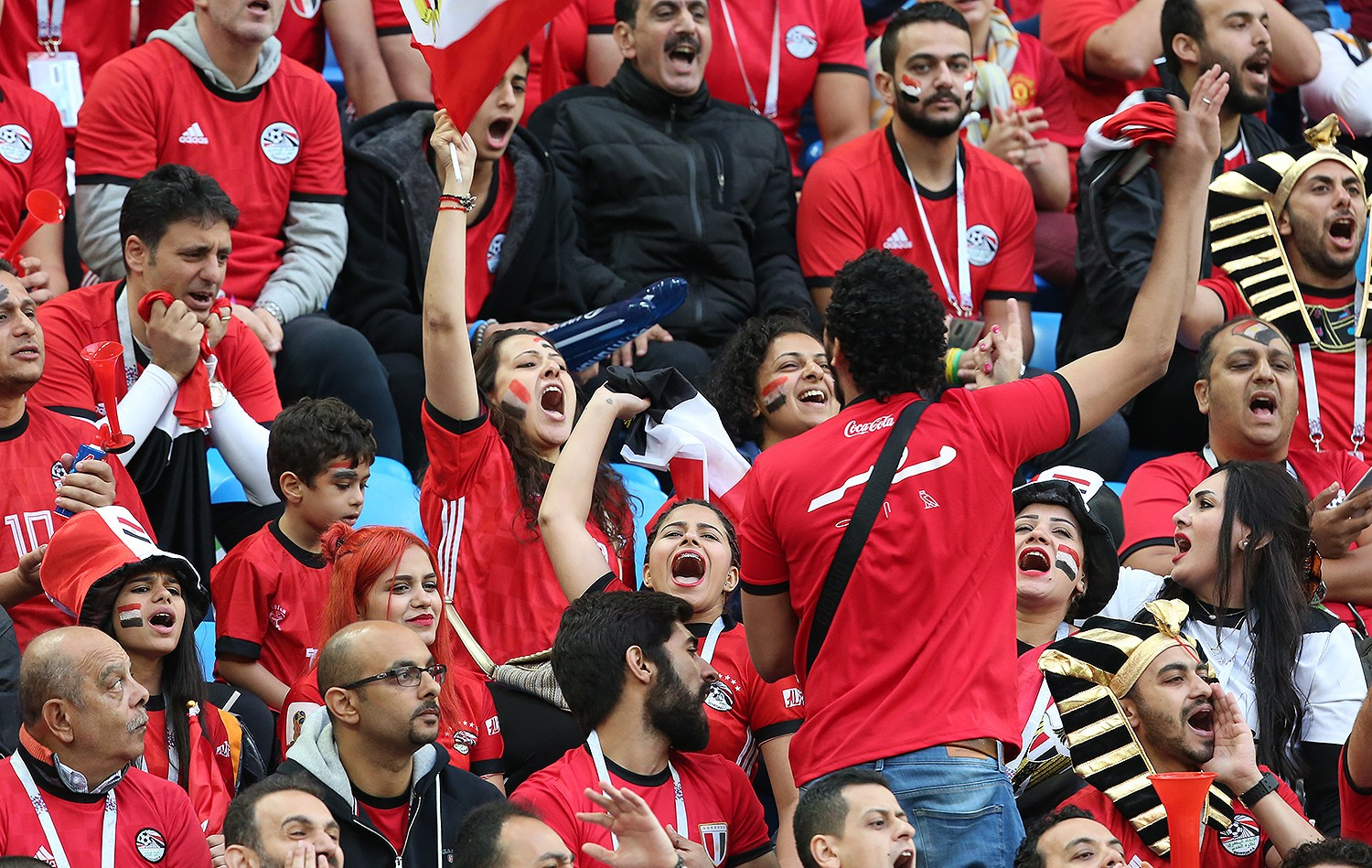 Egypt and Russia match at the FIFA World Cup 2018-06-19